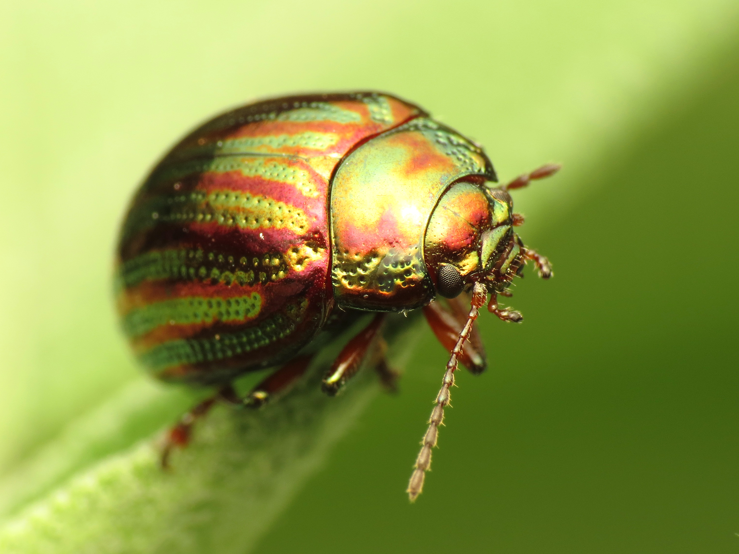 Chrysolina americana on sage. Els Poblets, Alicante, Spain.